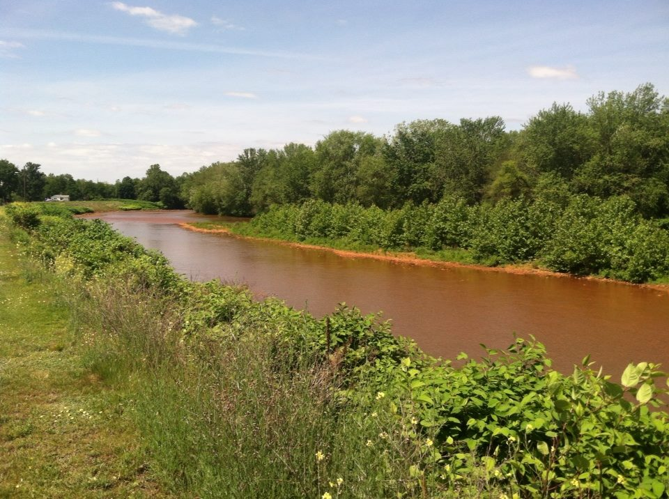 View of Lackawanna River in Duryea from Holy Rosary Cemetery. The river is discolored due to the acid from the coal mines.201